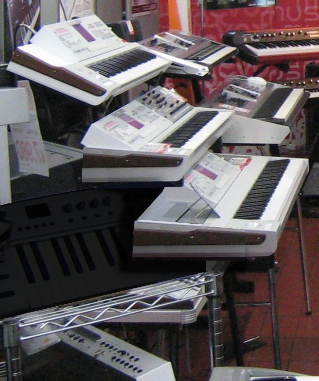 Korg M3 Music Workstation Sampler